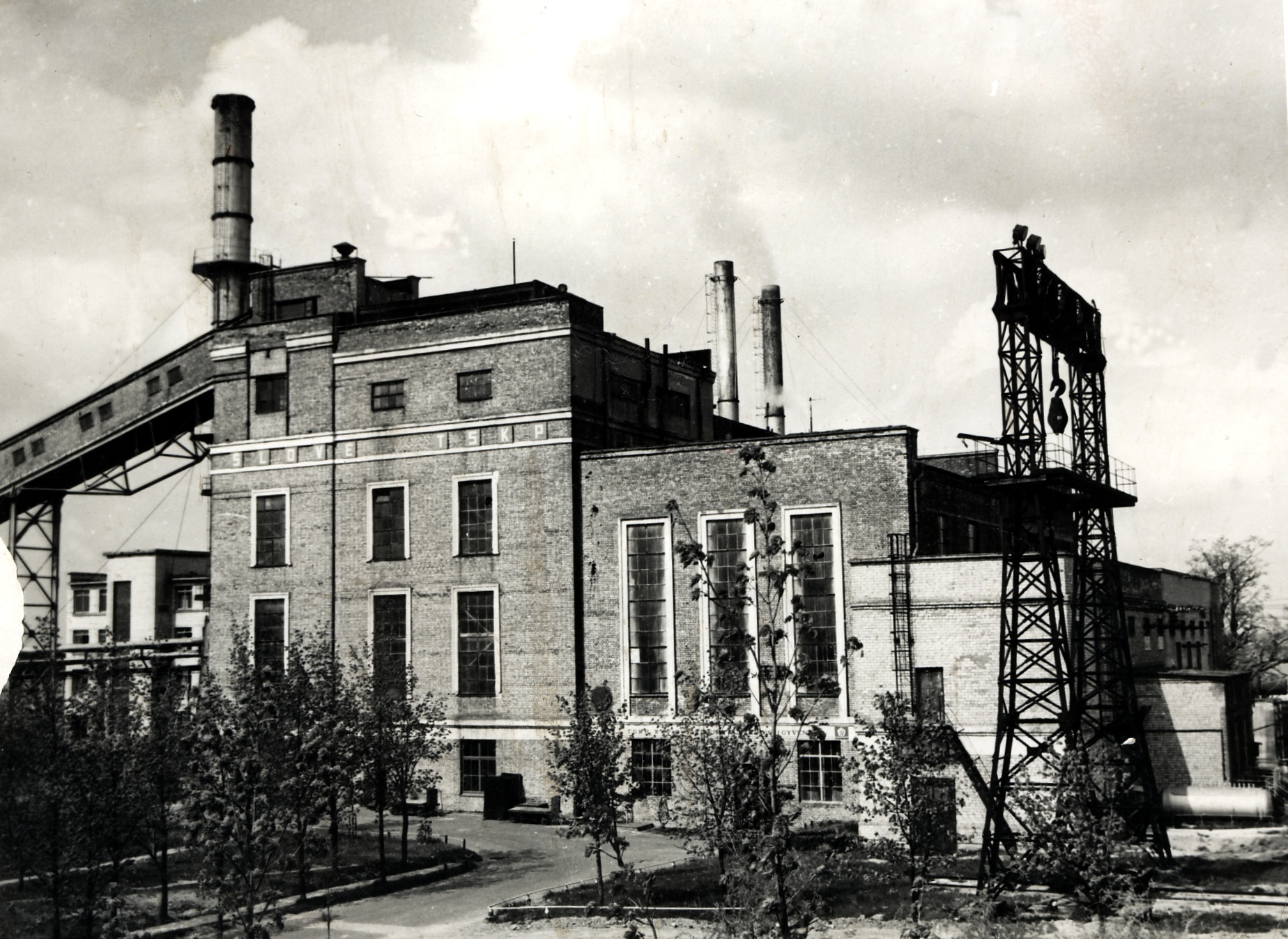 Rėkyva power plant, 1950.